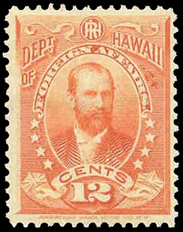 Official stamp of Hawaii, 12¢, 1896, orange, Lorrin Andrews Thurston, Scott O5.